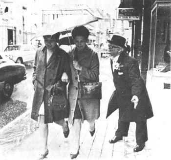 Jardín Florido (Flowered garden) (who died in July 1963), was a friendly person who greeted beautiful women who were walking in downtown Cordoba (Argentina) during the first half of the twentieth century.